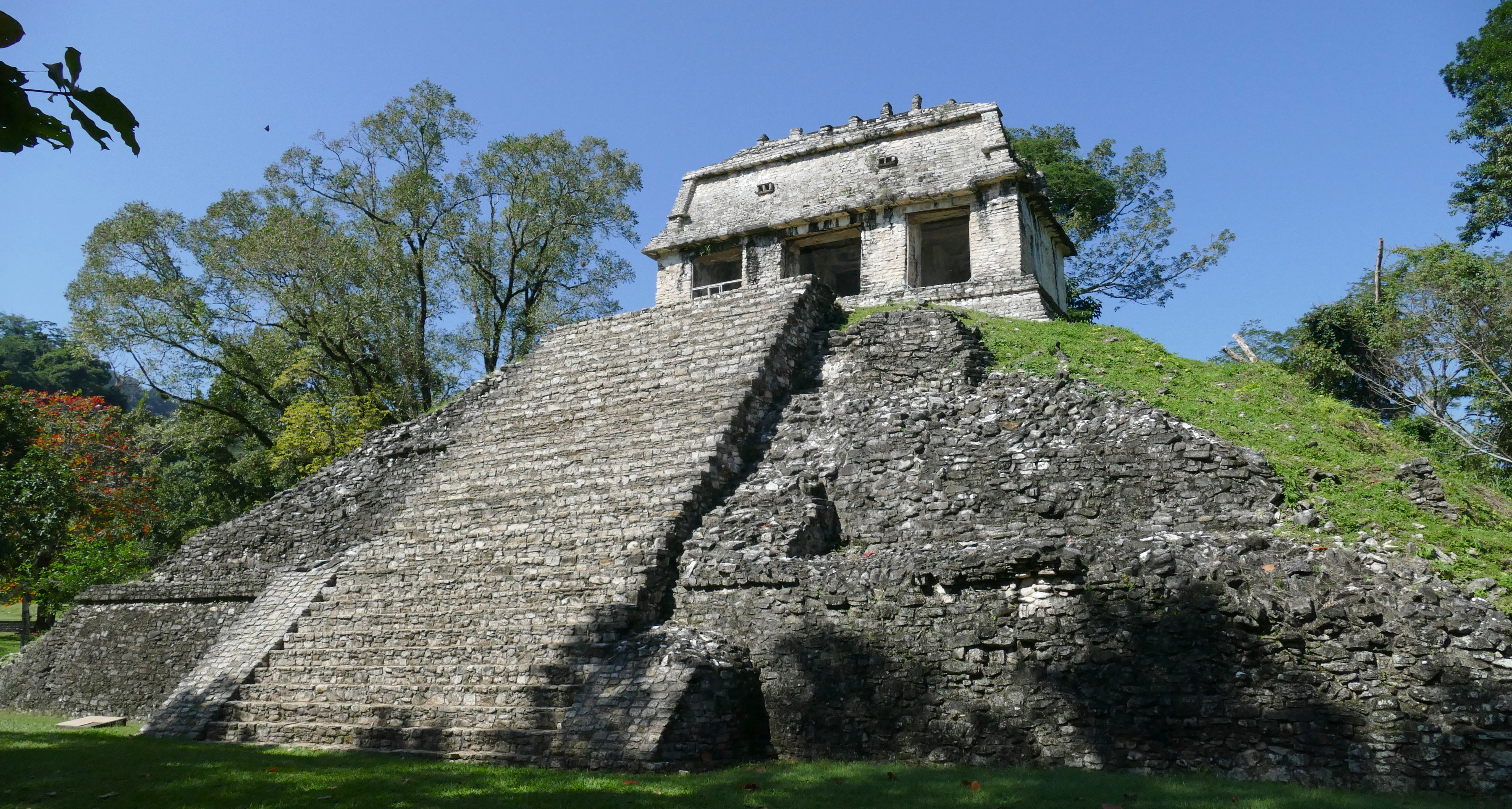 Northern Group, Palenque Ruins, Chiapas, MEXICO